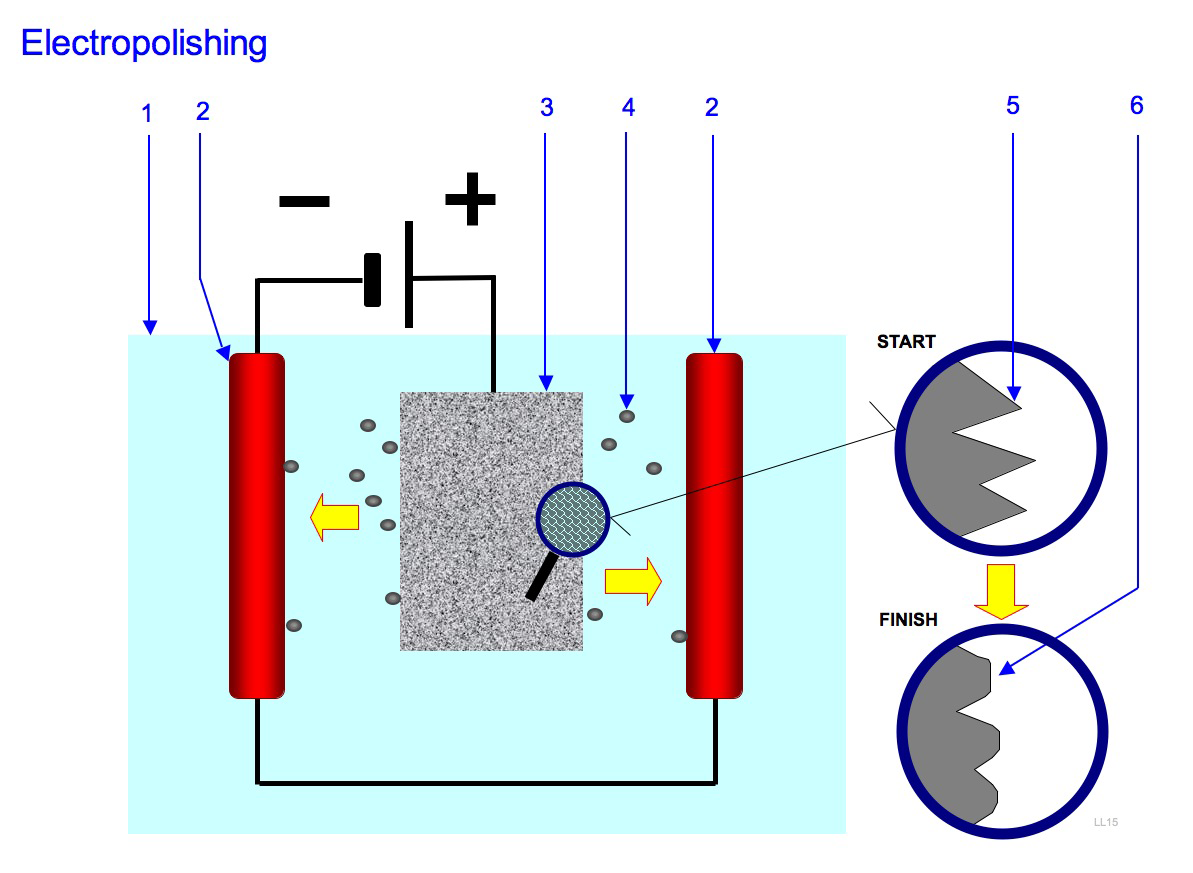 Electropolishing principle. 1 Electrolyte. 2 Cathode. 3 Work piece. 4 Partical moving from work piece to cathode. 5 Surface before polishing. 6 Surface after polishing.